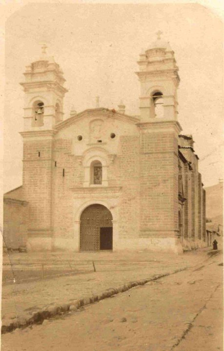 Templo San Agustin Ayacucho